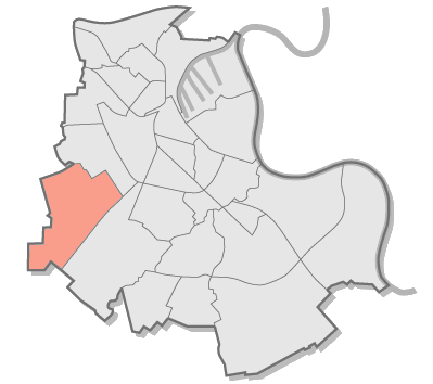 Map of Neuss-Grefrath